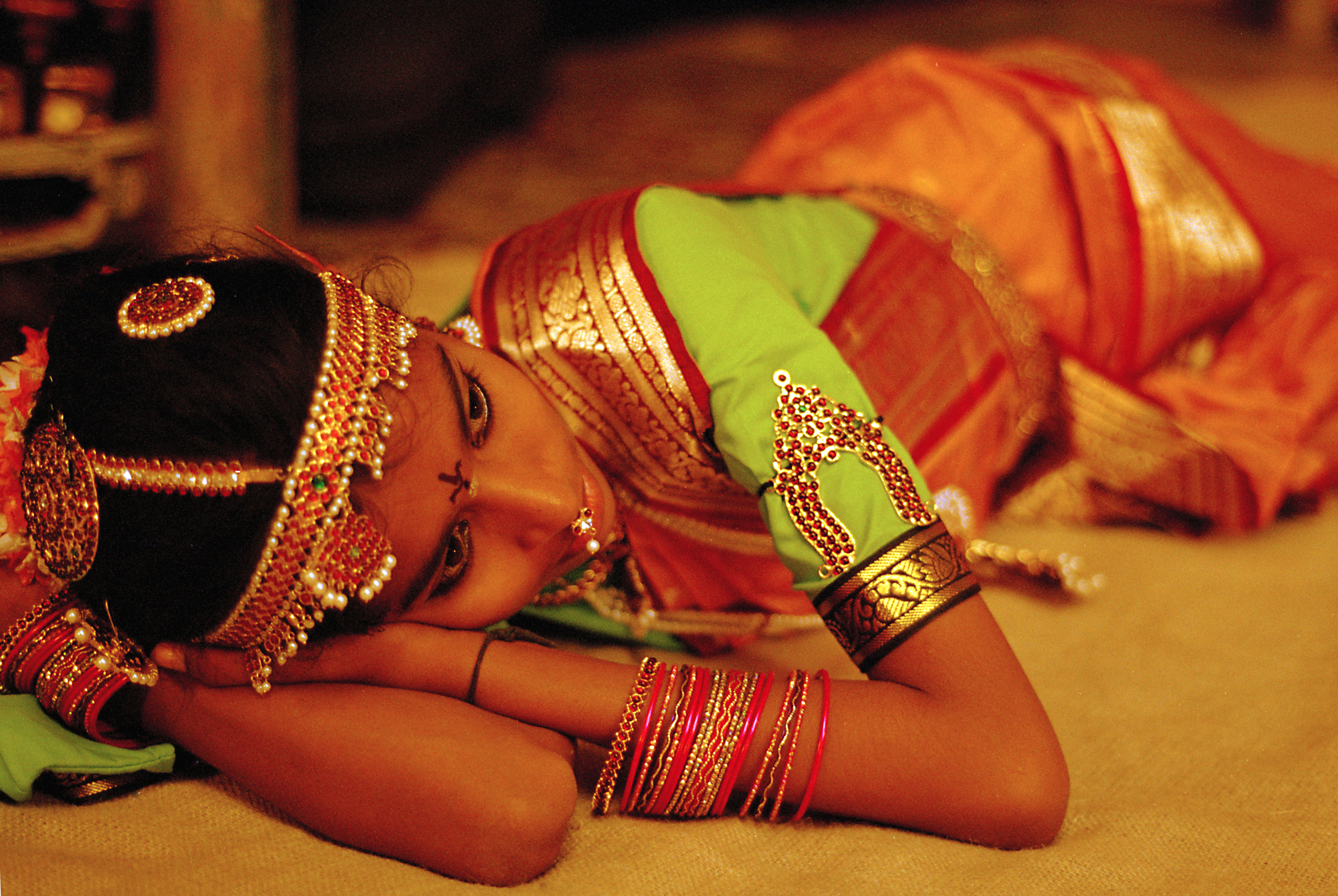 Vanaja, played by Mamatha Bhukya, rests on the set after performing a Kuchipudi dance Tillana.The film Vanaja was written, directed and edited by Rajnesh Domalpalli for his MFA thesis at Columbia University.